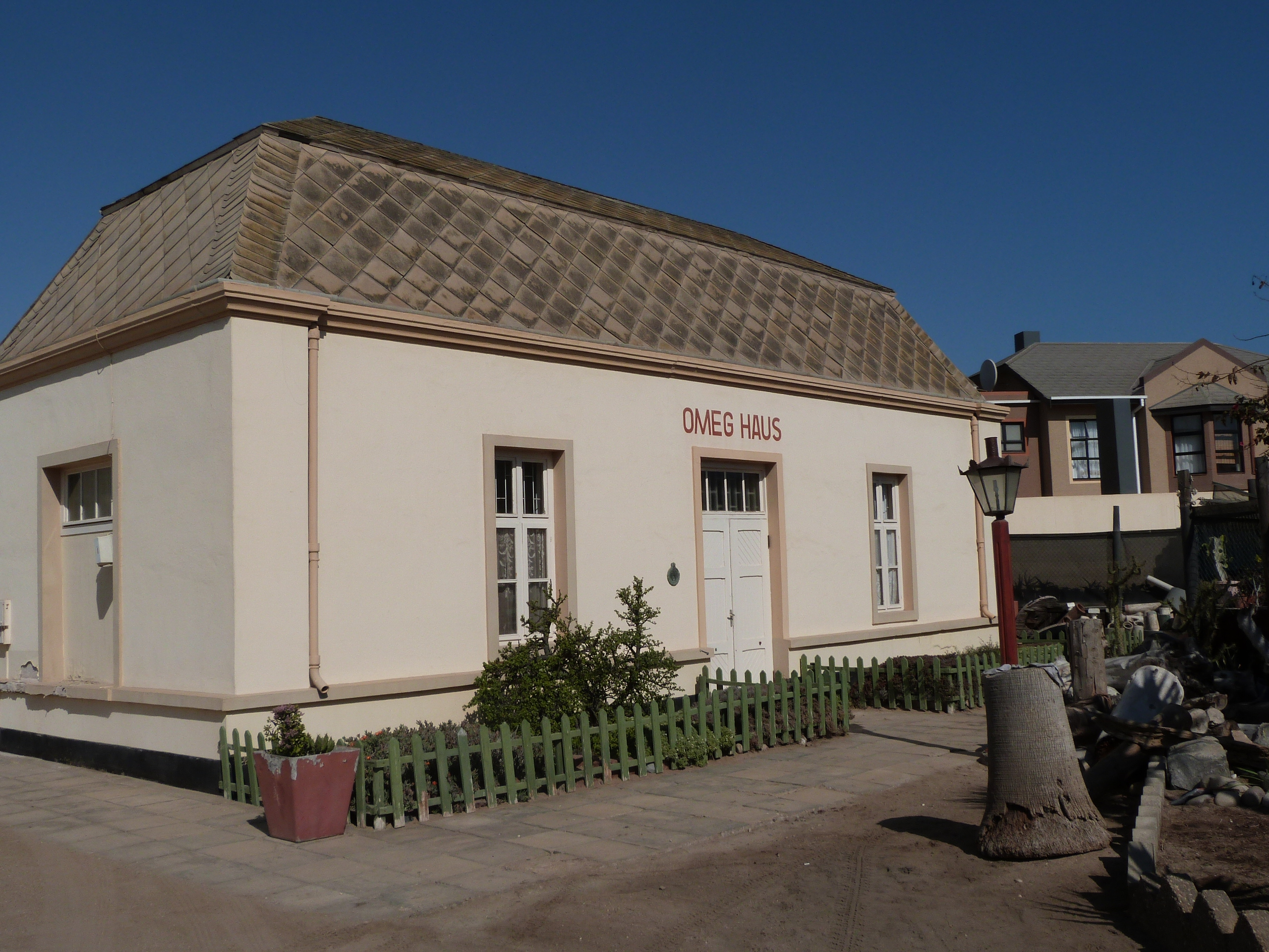 OMEG-Haus (former goods shed) of the Railway Station Otavi-Railway in Swakopmund, Namibia